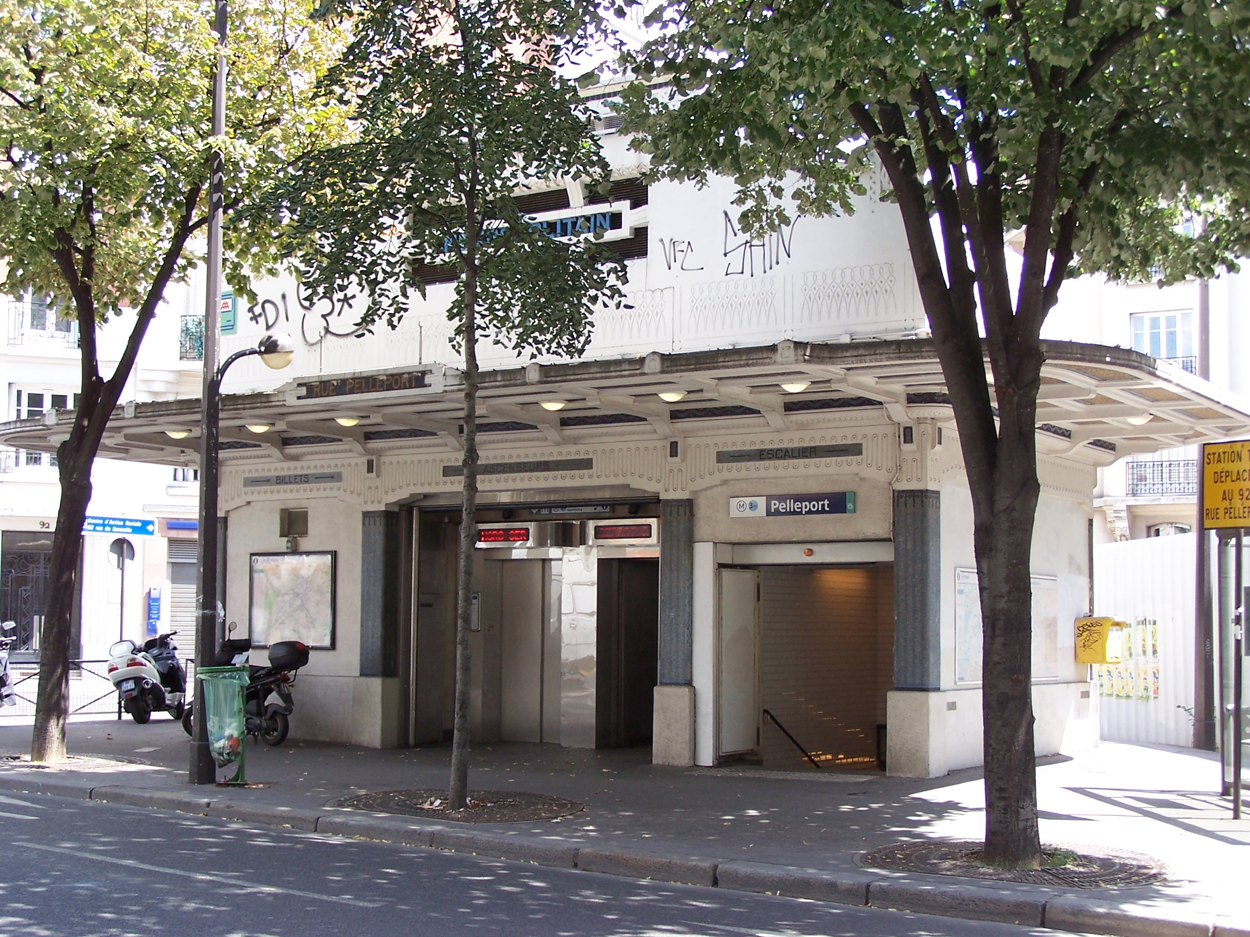 Entrance of the Pelleport subway station at Avenue Gambetta, Paris